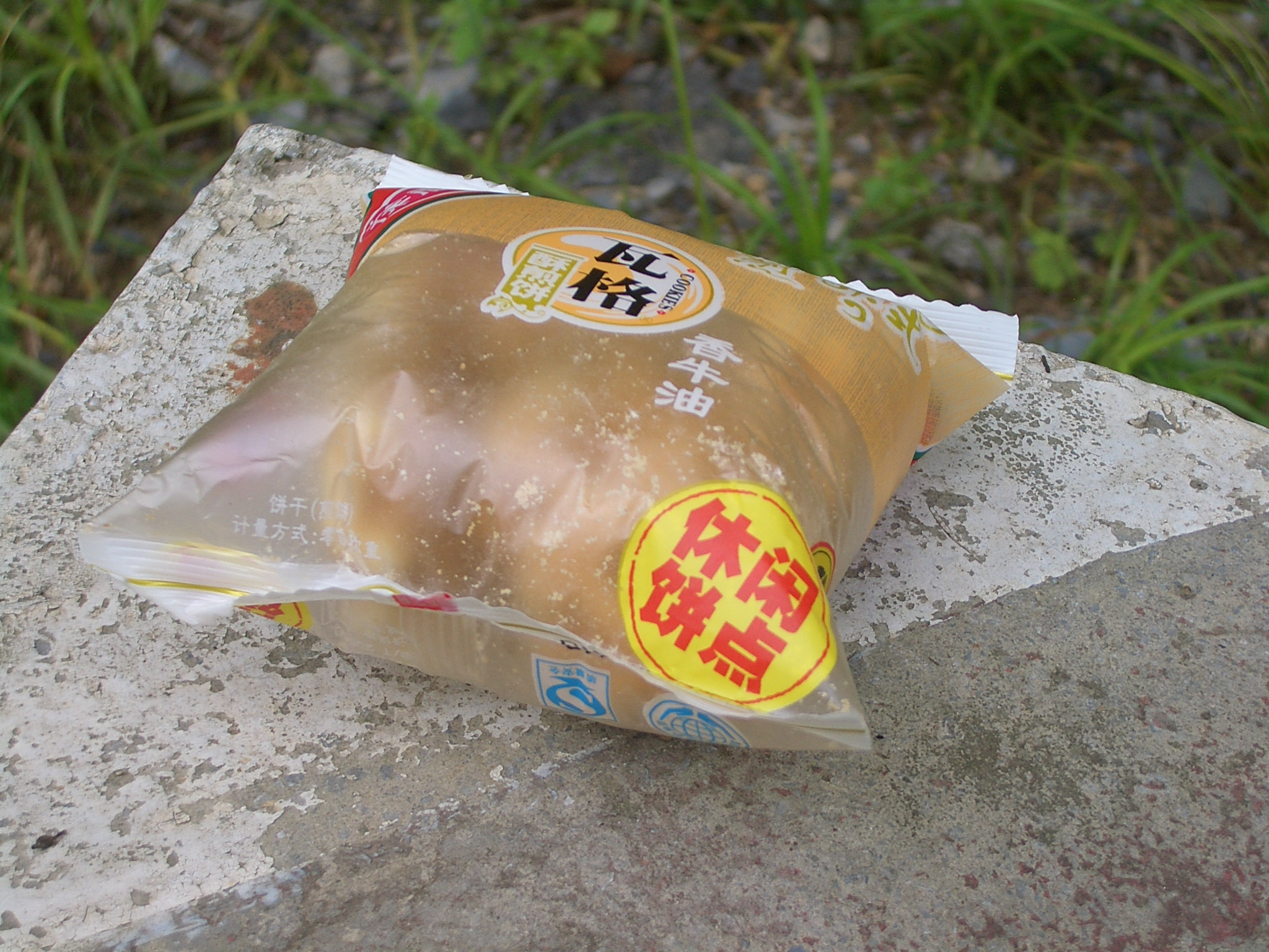 A sealed package of cookies expands when taken to a higher elevation (around 2000 m above the sea level), on the mountain pass between Muyu (木鱼镇) and Yazikou (鸭子口乡 toward Yichang) in Shennongjia. The text on the package described the type of cookie : waffle (瓦格), sour-omelette cookie (酥煎饼) fragant cream (香牛油).